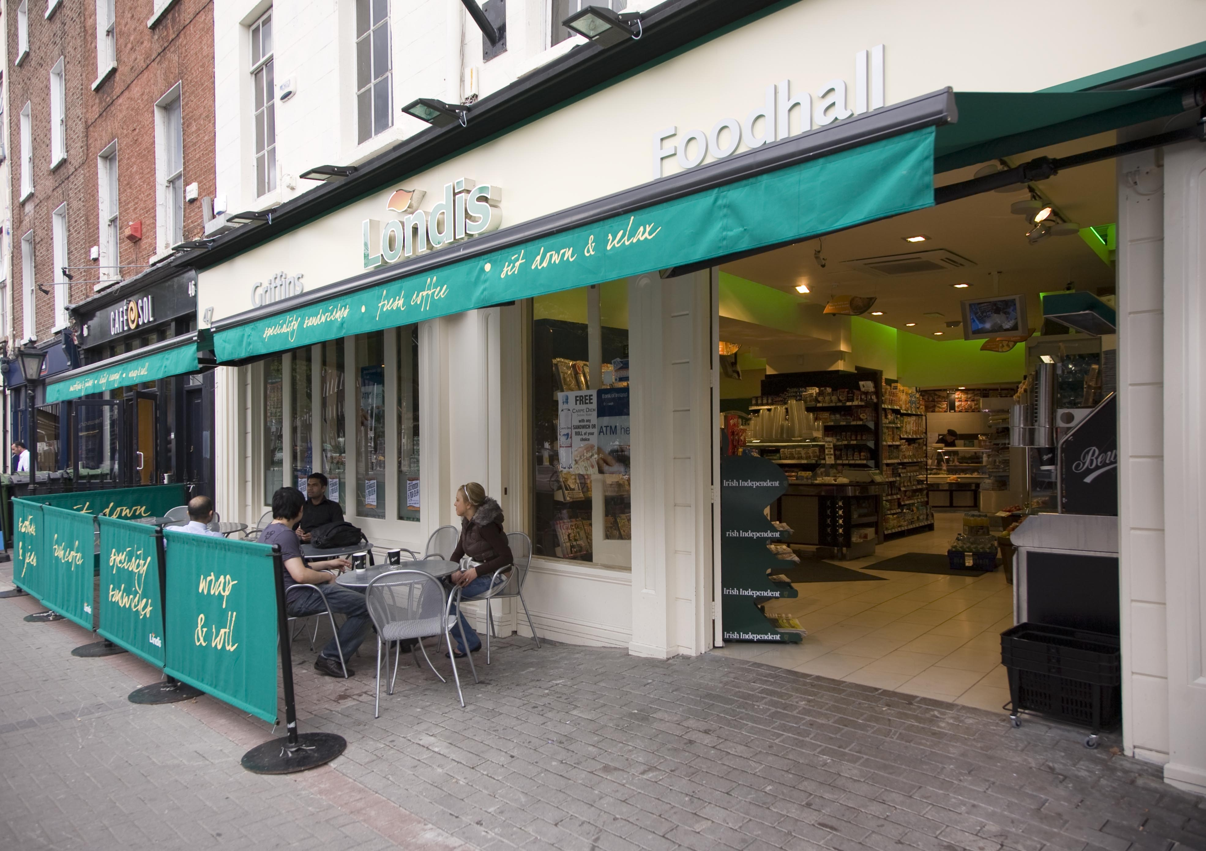 Image of new Londis Store in Dublin, Ireland.